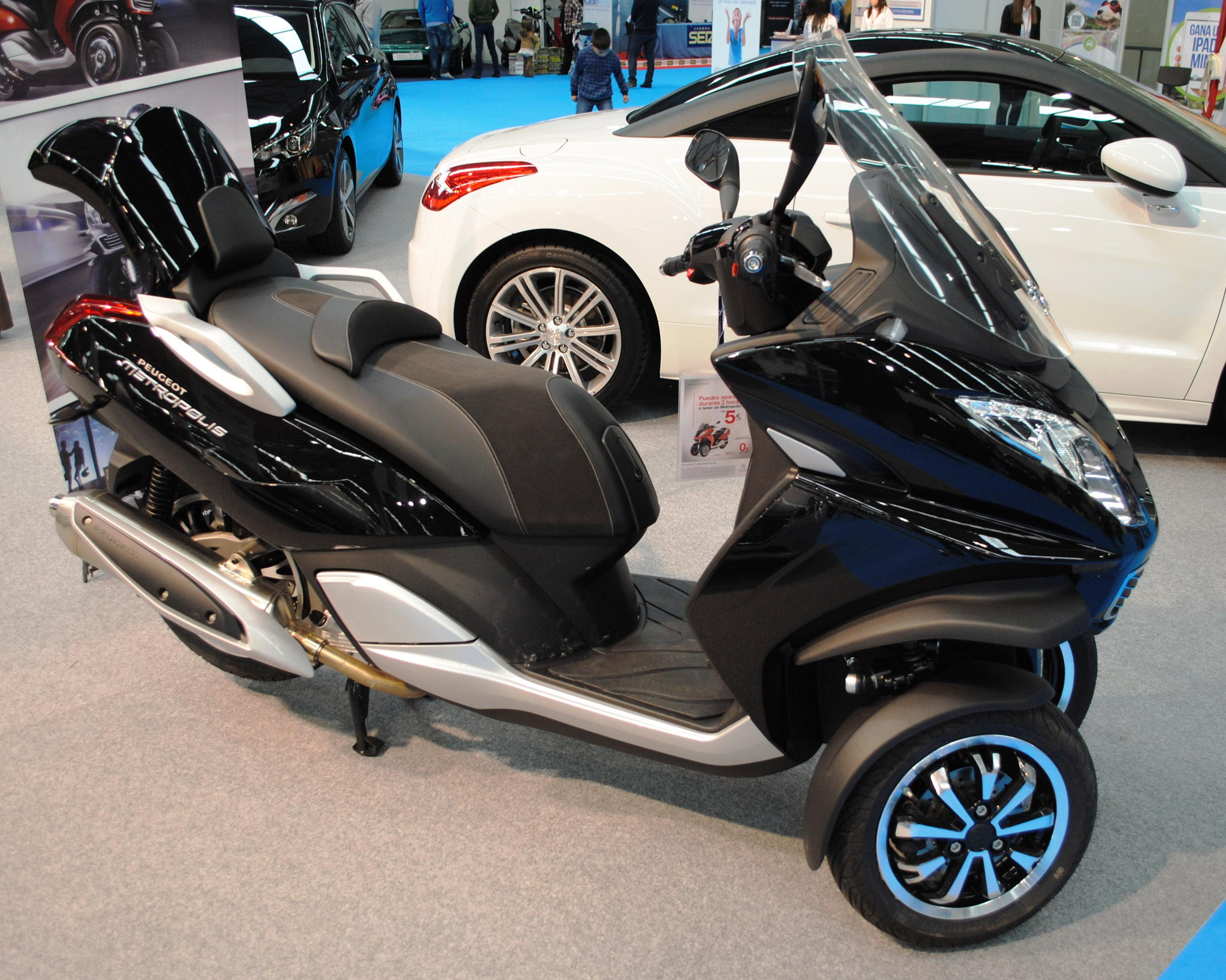 Peugeot Metropolis, IFEVI, 2014 (3).JPG